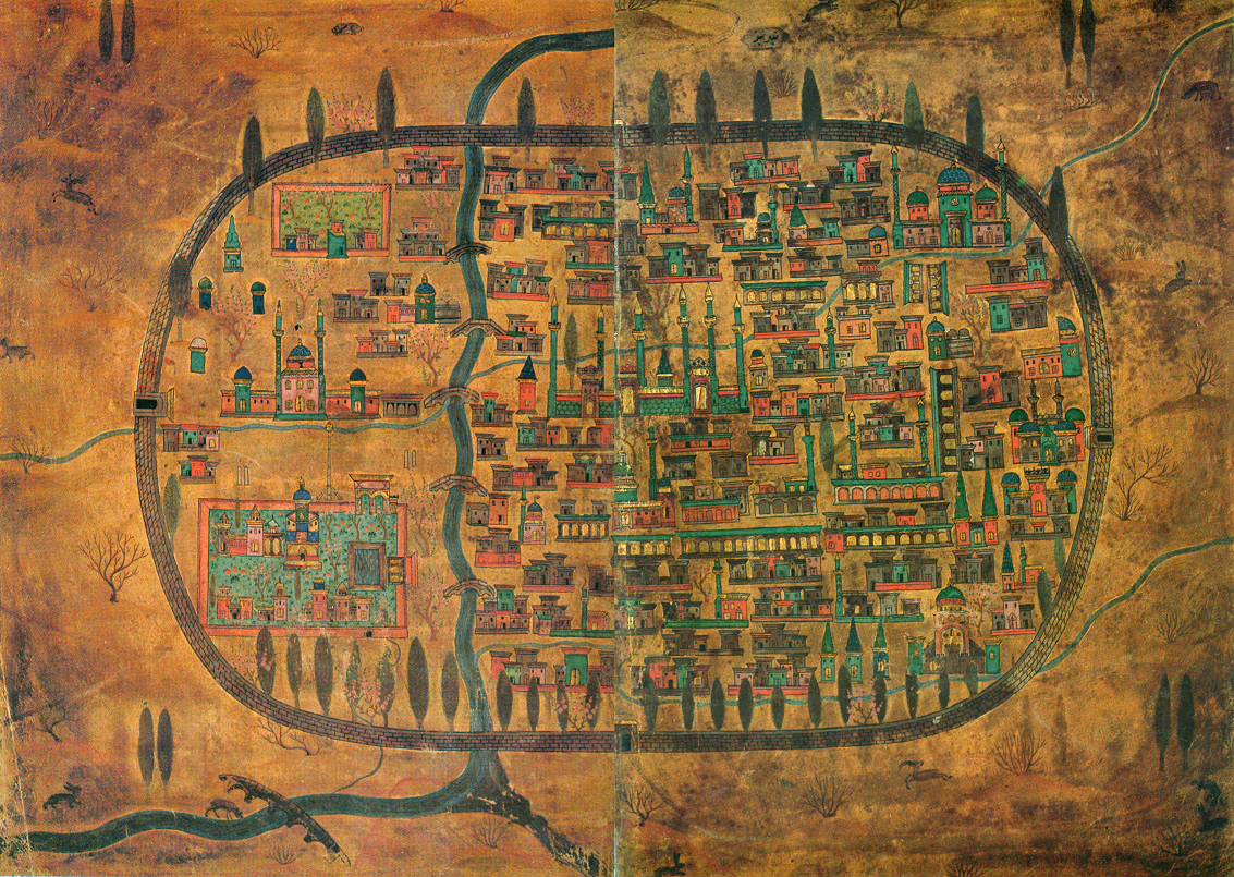 16th century map of Tabriz, Iran. * Matrakçı Nasuh's separate drawings of east and west Tabriz were put together.